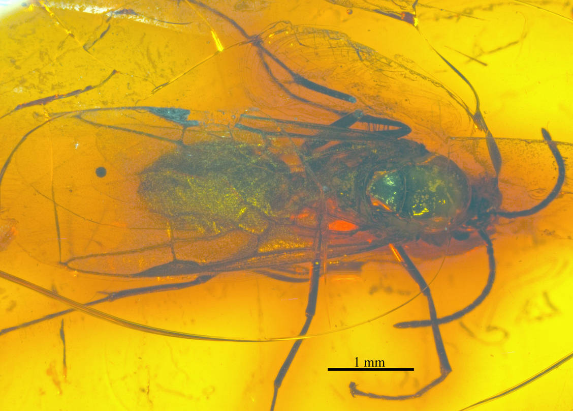 Profile view the Dolichoderus longipennis holotype worker. Middle Eocene; Baltic amber, Samland Peninsula, Kalingrad, Russia Naturhistorisches Museum, Vienna, Austria. Specimen NHMW1984-31-252